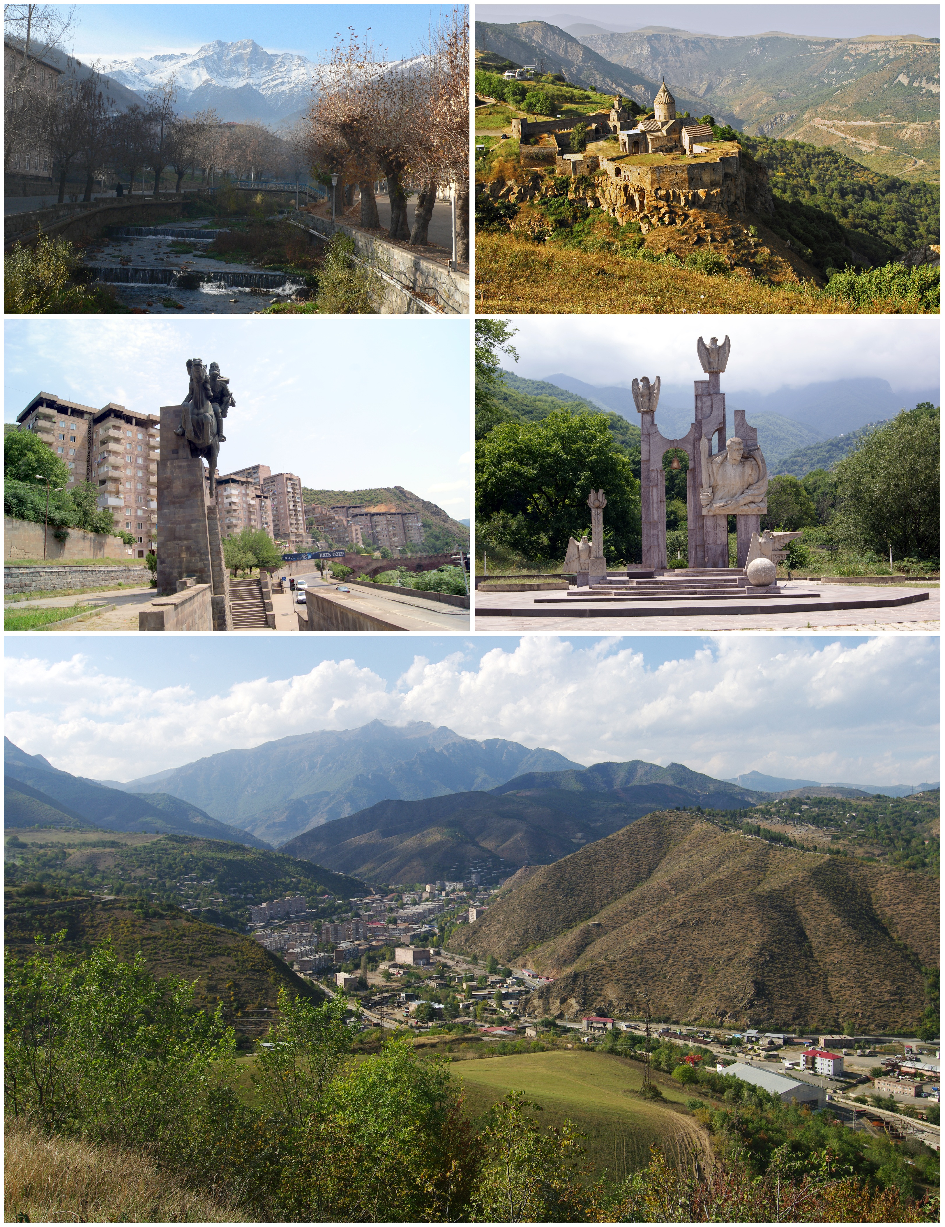 Kapan, Syunik, Armenia.